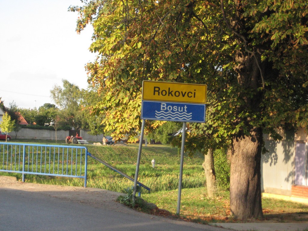 Rijeka Bosut - Rokovci